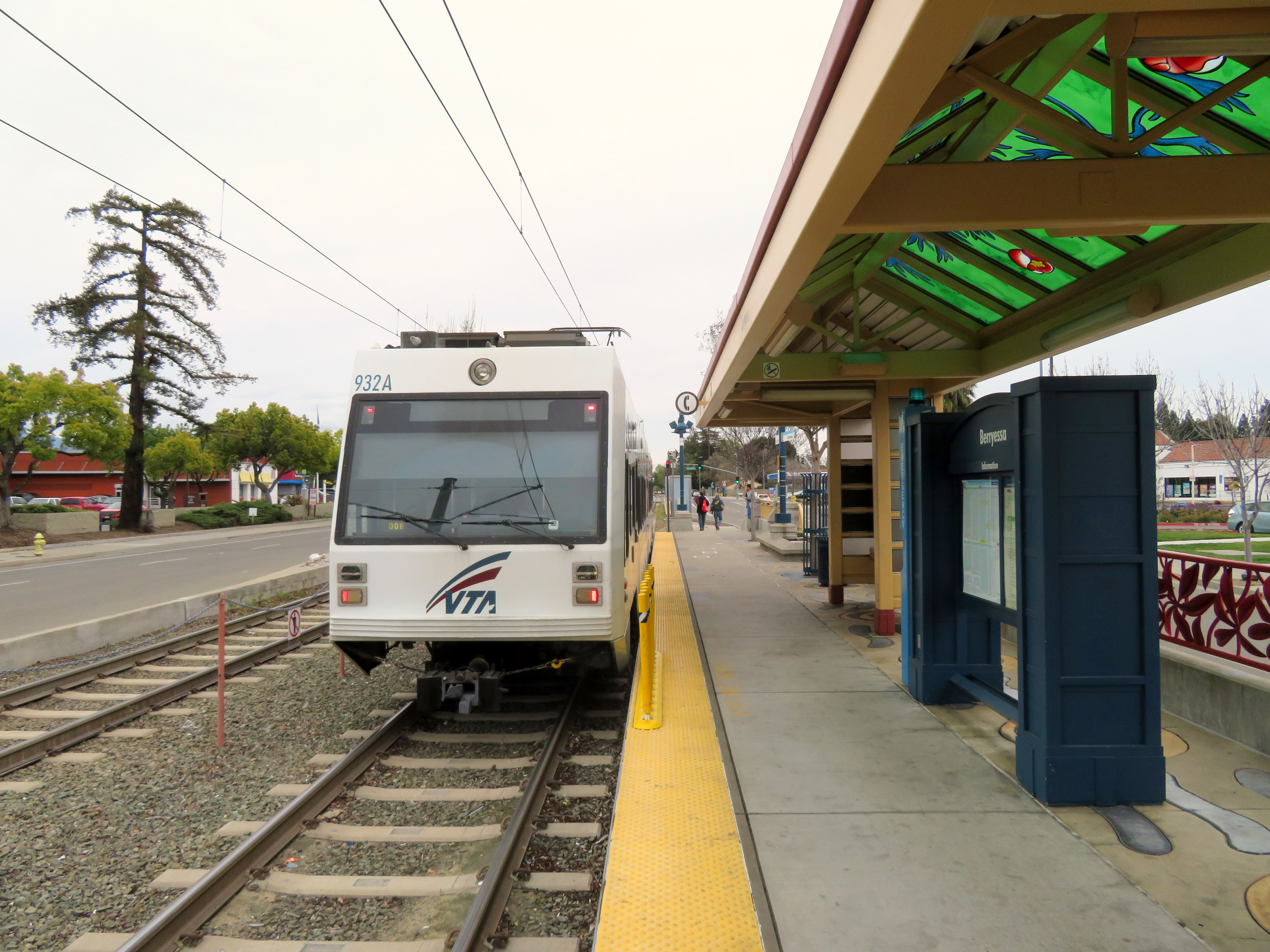 Southbound train at Berryessa station in March 2018